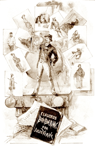 An illustration from Jules Verne's novel "Claudius Bombarnac" (alternate English titles: "The Special Correspondent", "The Adventures of a Special Correspondent", "The Adventures of a Special Correspondent in Central Asia" or "Claudius Bombarnac: Special Correspondent").